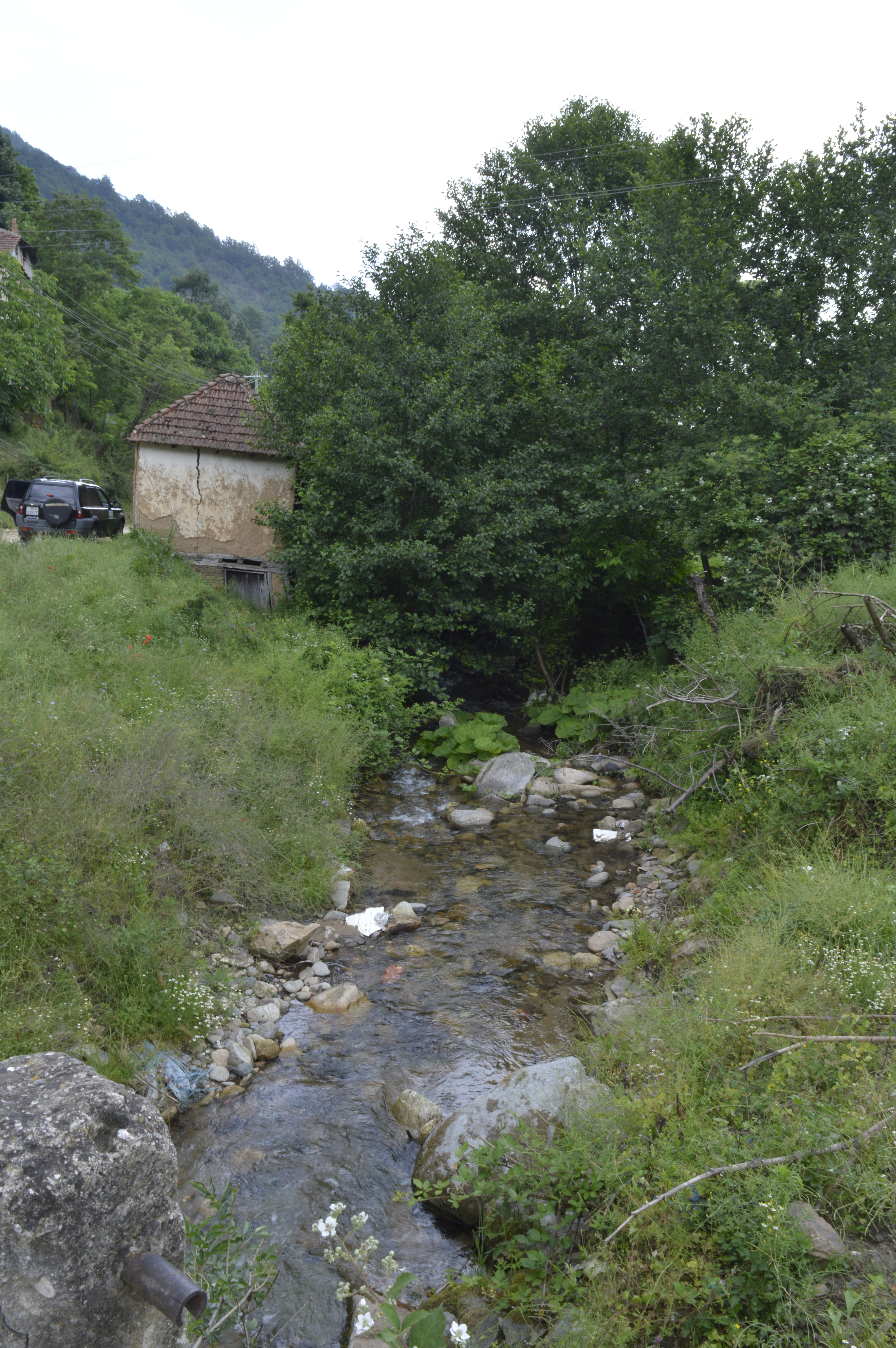 View of the Oreše River